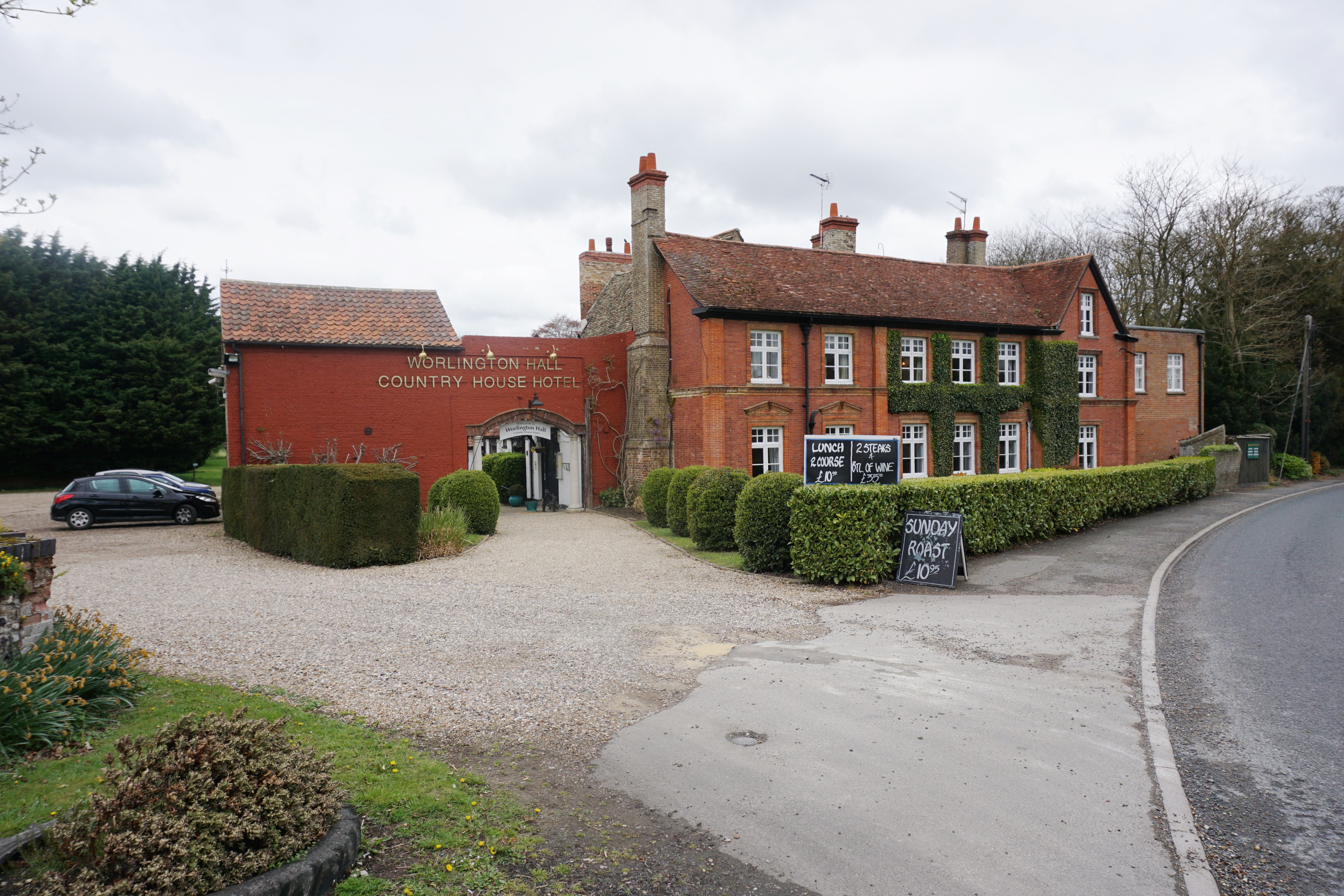 Worlington Hall Country House Hotel